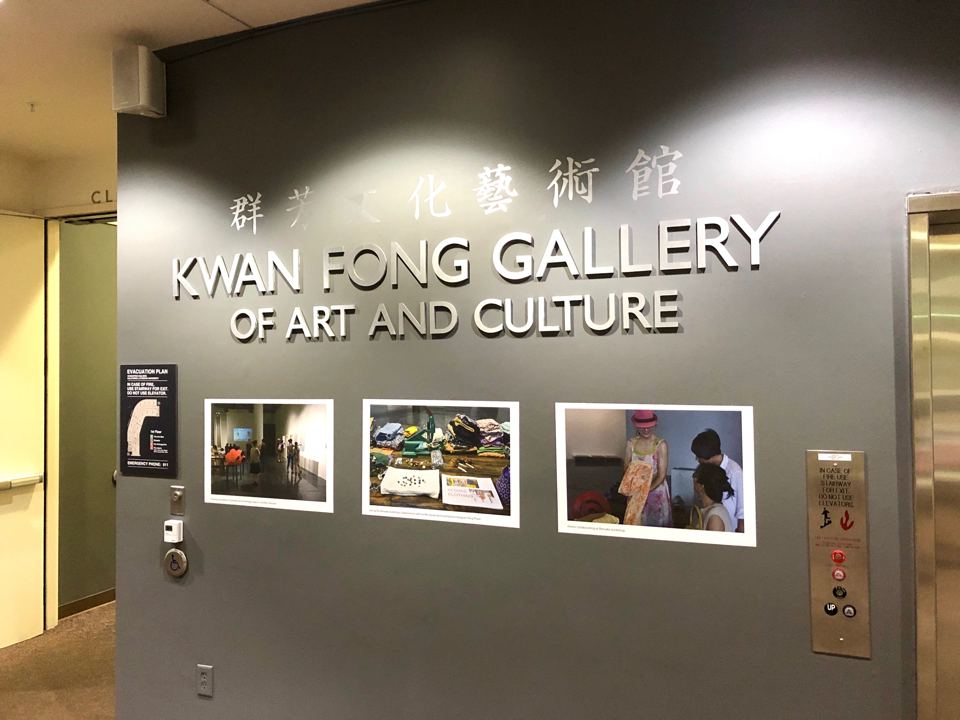 Kwan Fong Gallery of Art and Culture in the Soiland Humanities Building at Cal Lutheran.